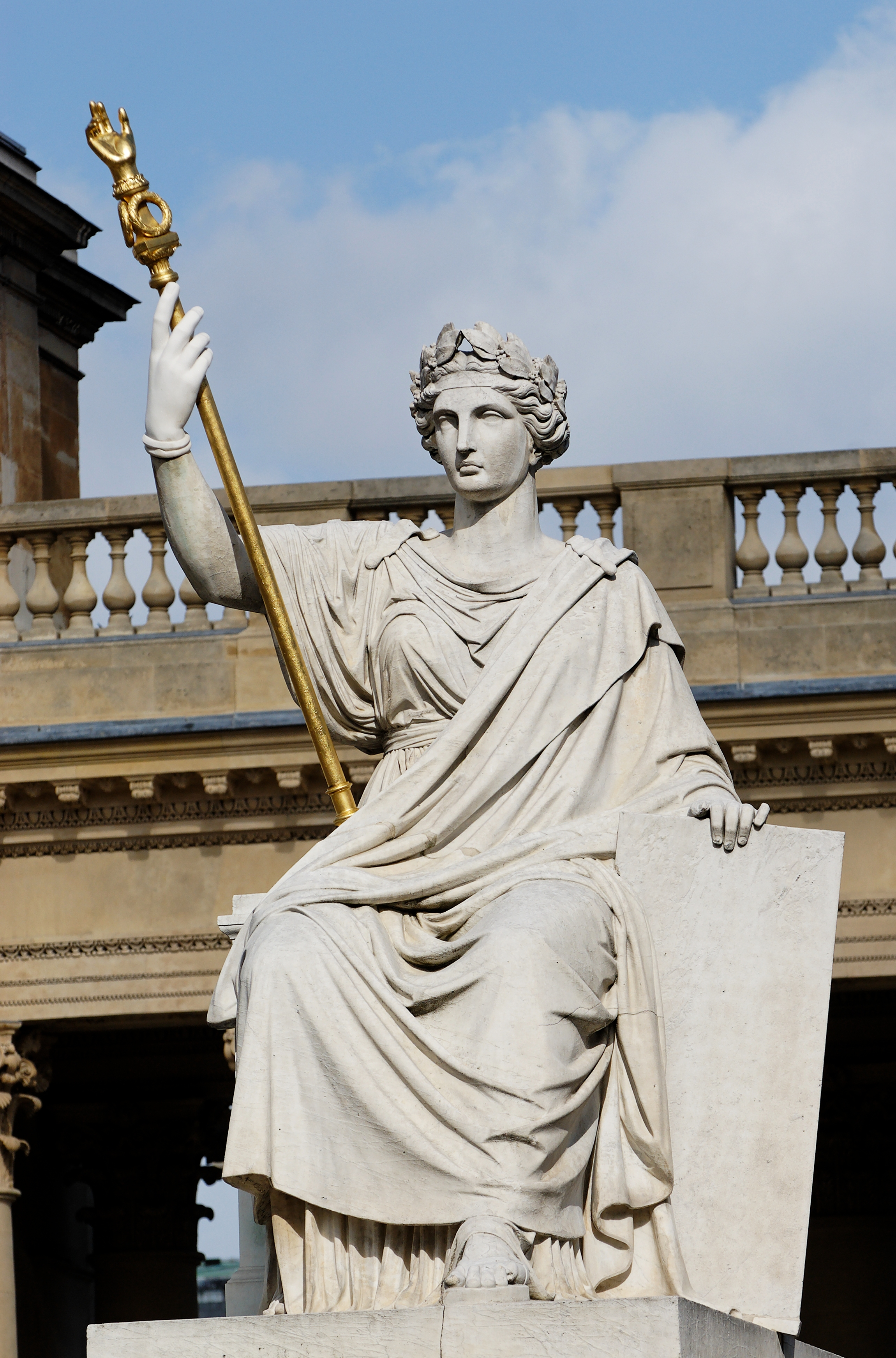 The Law by Jean-Jacques Feuchère. Marble, 1852. Place du Palais-Bourbon, 7th arrondissement of Paris.